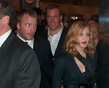 Madonna with her ex-husband Guy Ritchie